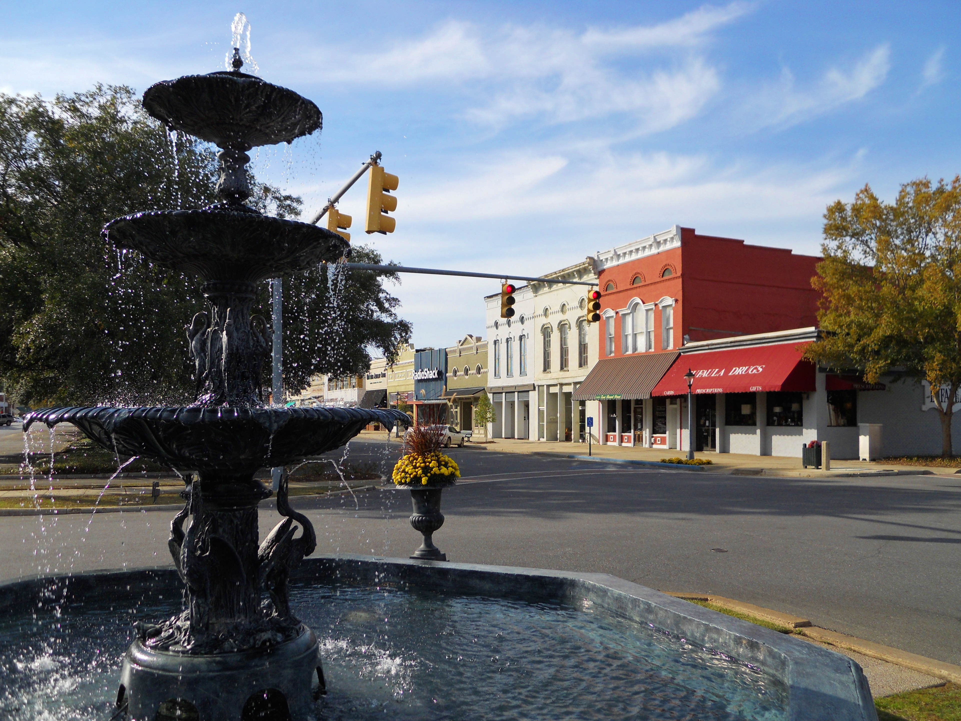 This is a photograph of MacMonnie's Fountain in downtown Eufaula, AL.